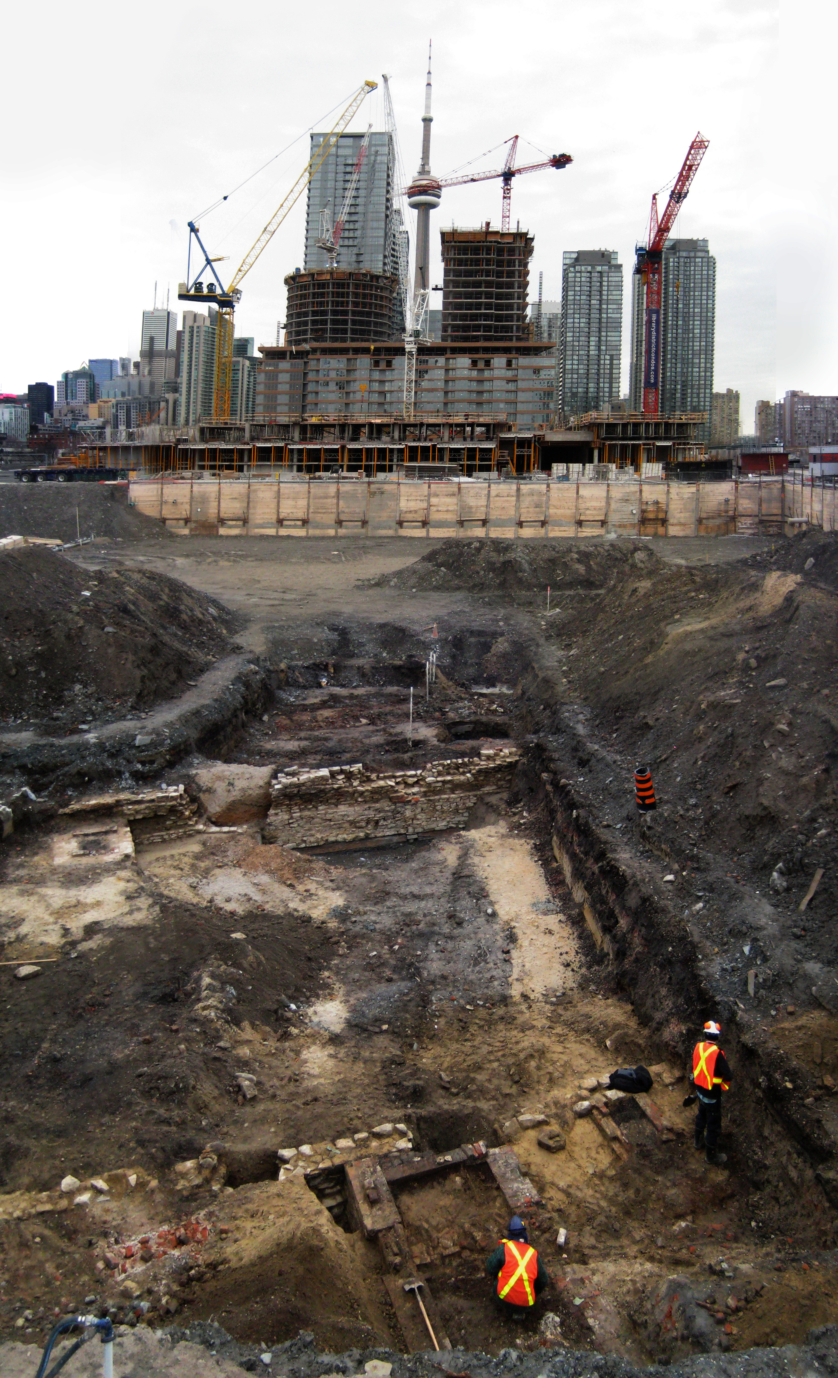 Construction of the Library District project in Toronto, Ontario, Canada. During the construction of the Library District, a development adjacent to the Bathurst Street bridge south of Front Street, brick and masonry foundation walls were uncovered by archaeologists. The walls are the remains of a huge cruciform-shaped engine-house complex built by the Grand Trunk Railway in the 1850s. These buildings, then near the shore of Lake Ontario, marked the starting point of the railway’s westbound tracks.The development will include a library, condominium tower, social housing and a park.